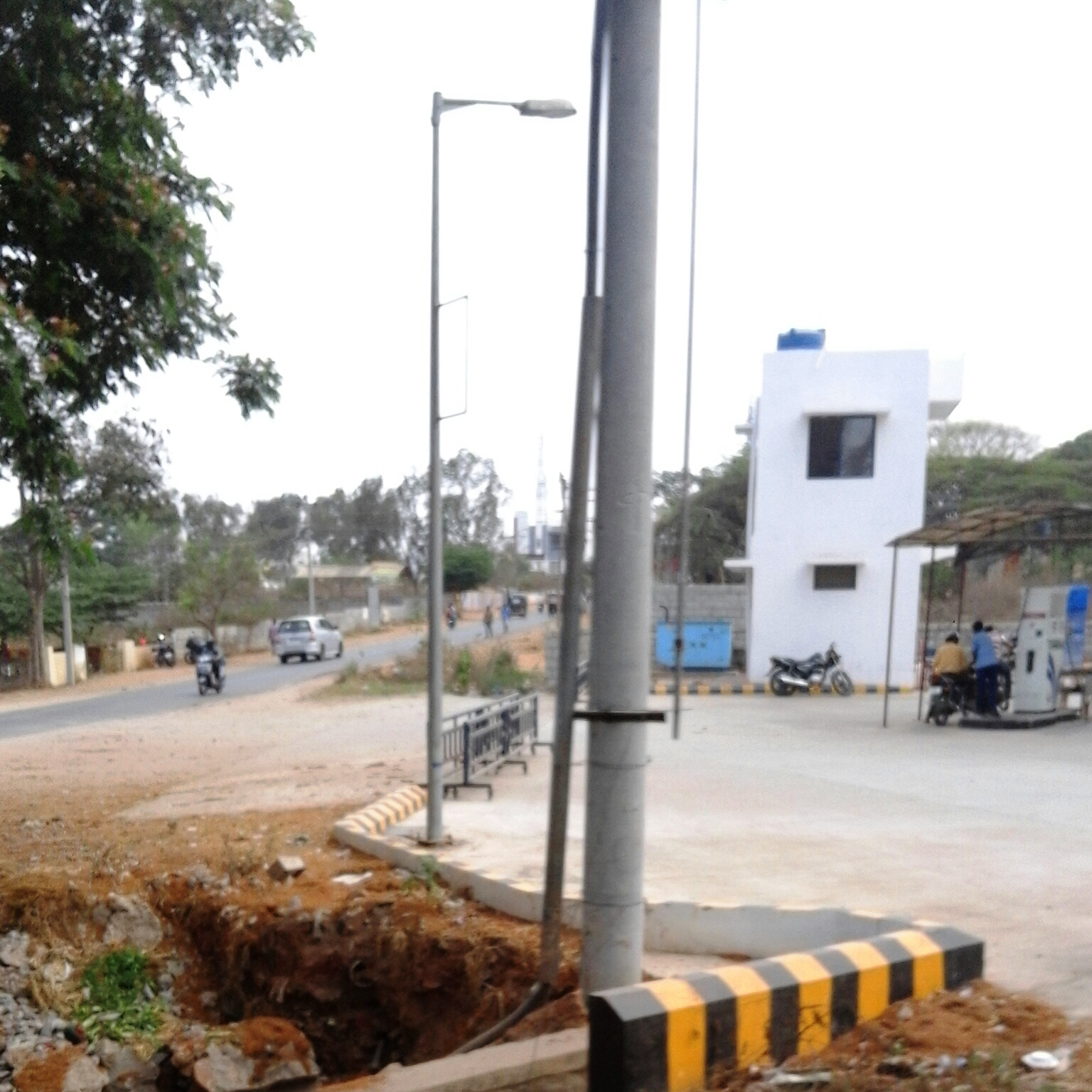 Mananthavady Road, Mysore district, Karnataka province, India.